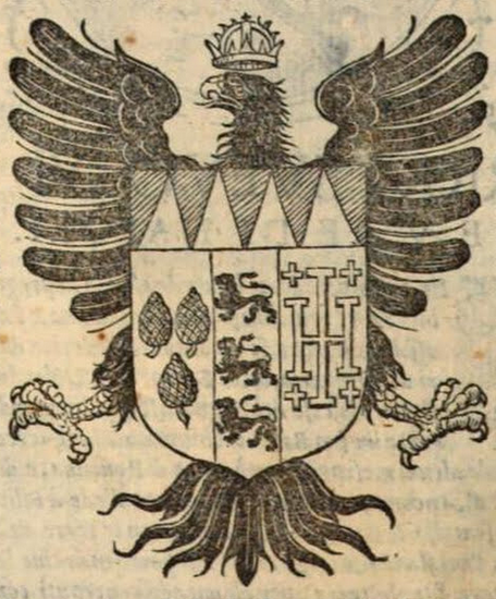 Attributed Coat of Arms of Frederick II, Holy Roman Emperor (Descrittione del Regno di Napoli)